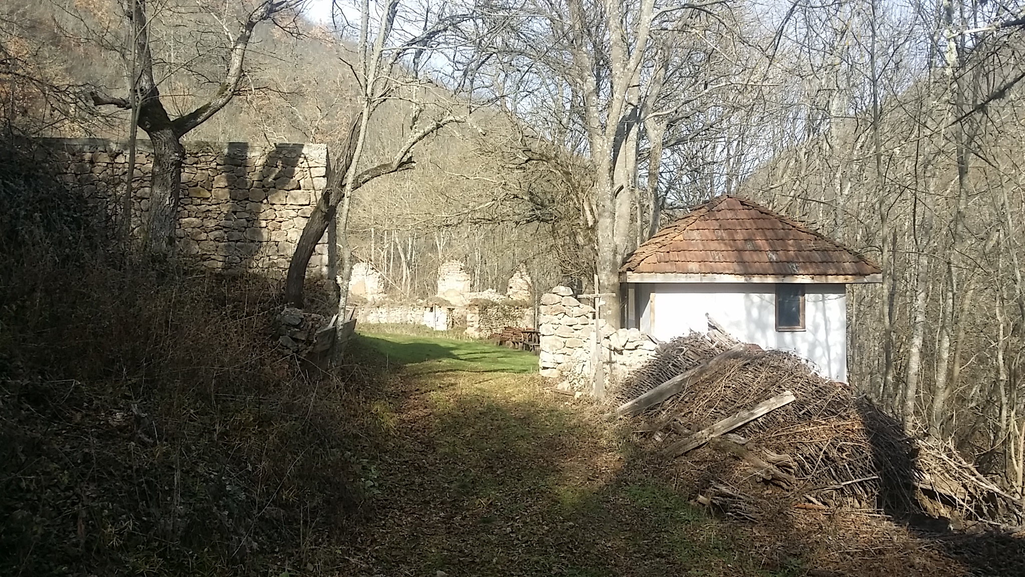 Ездемировска планина